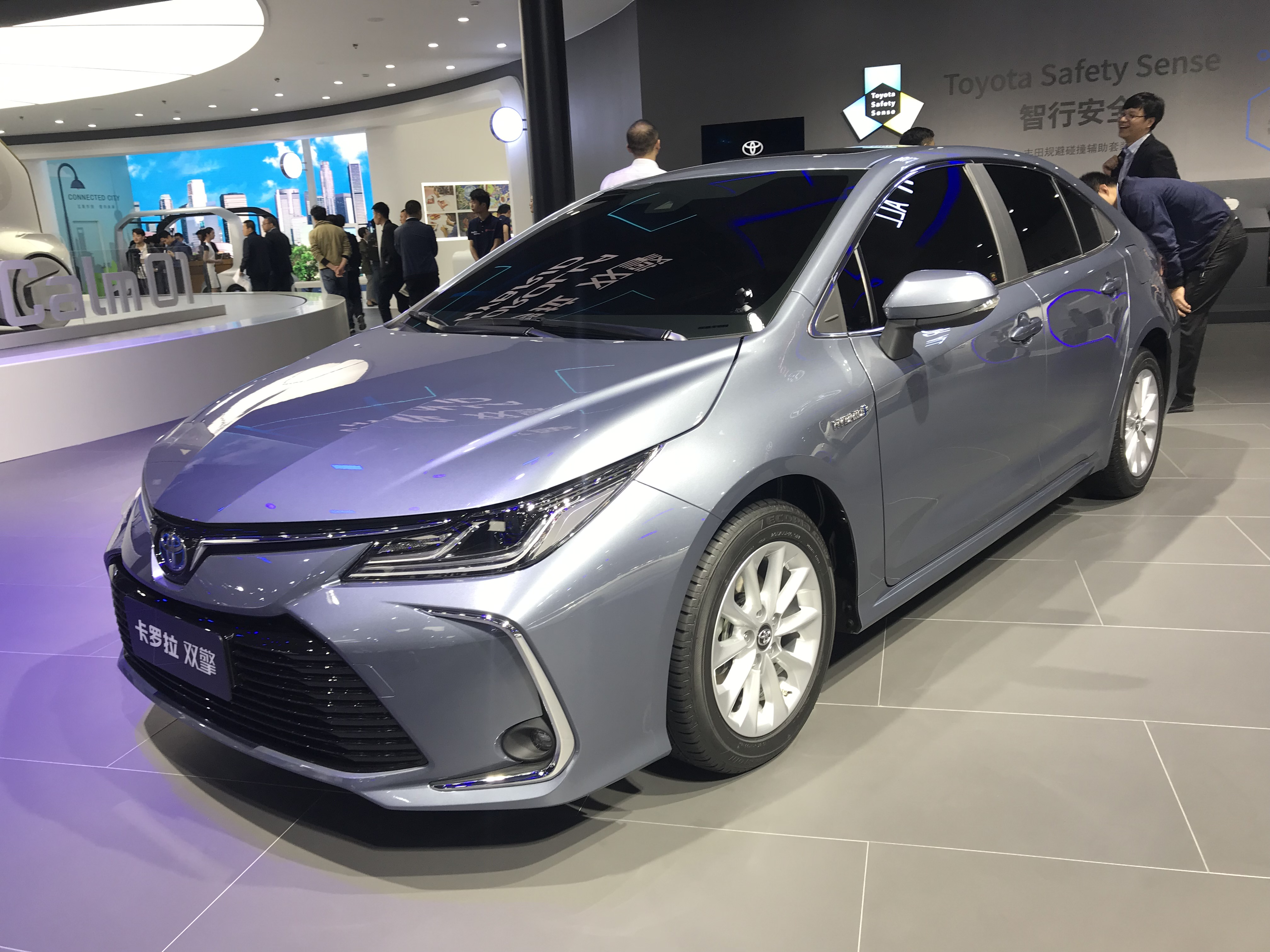 Toyota Corolla